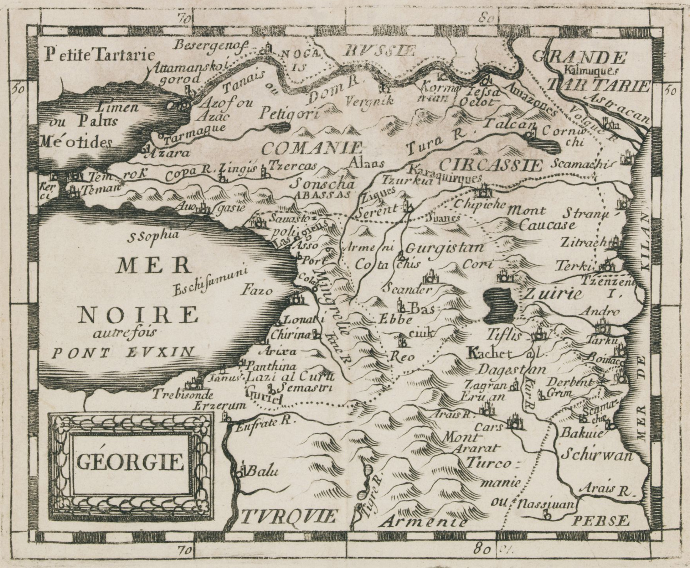 Uncommon miniature map of the Caucasus from Pierre Duval's La Geographie Universeille dated 1676. Following his Cartes de geographie in 1657, Pierre Duval published this smaller size atlas which contains a larger quantity of maps. The maps in the atlas appear to be derived from those of his uncle Nicolas Sanson.